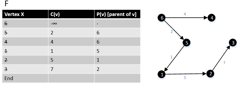 MBSA-GT-example-6